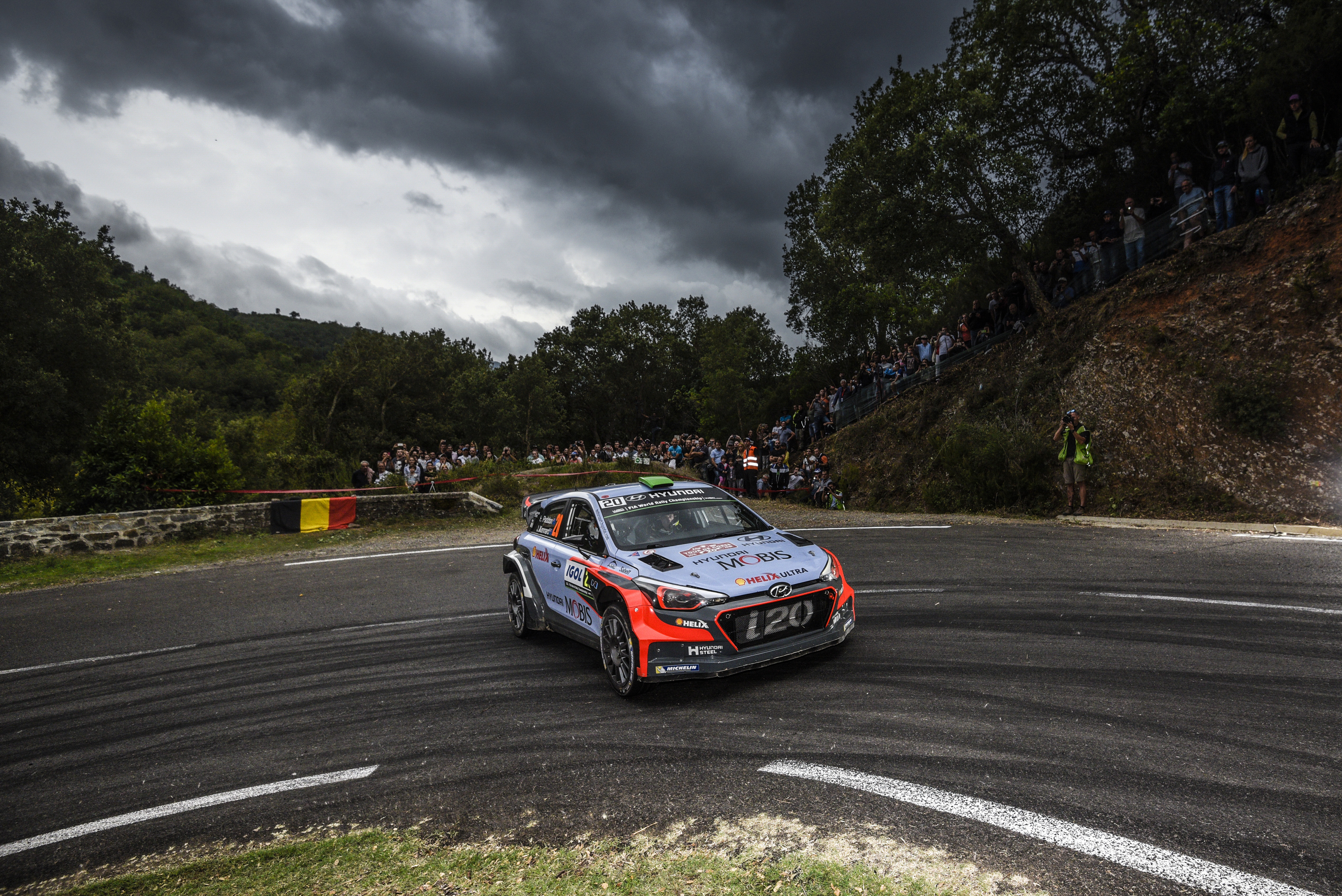 Hayden Paddon and co-driver John Kennard in their Hyundai i20 WRC at the 2016 Rally France.